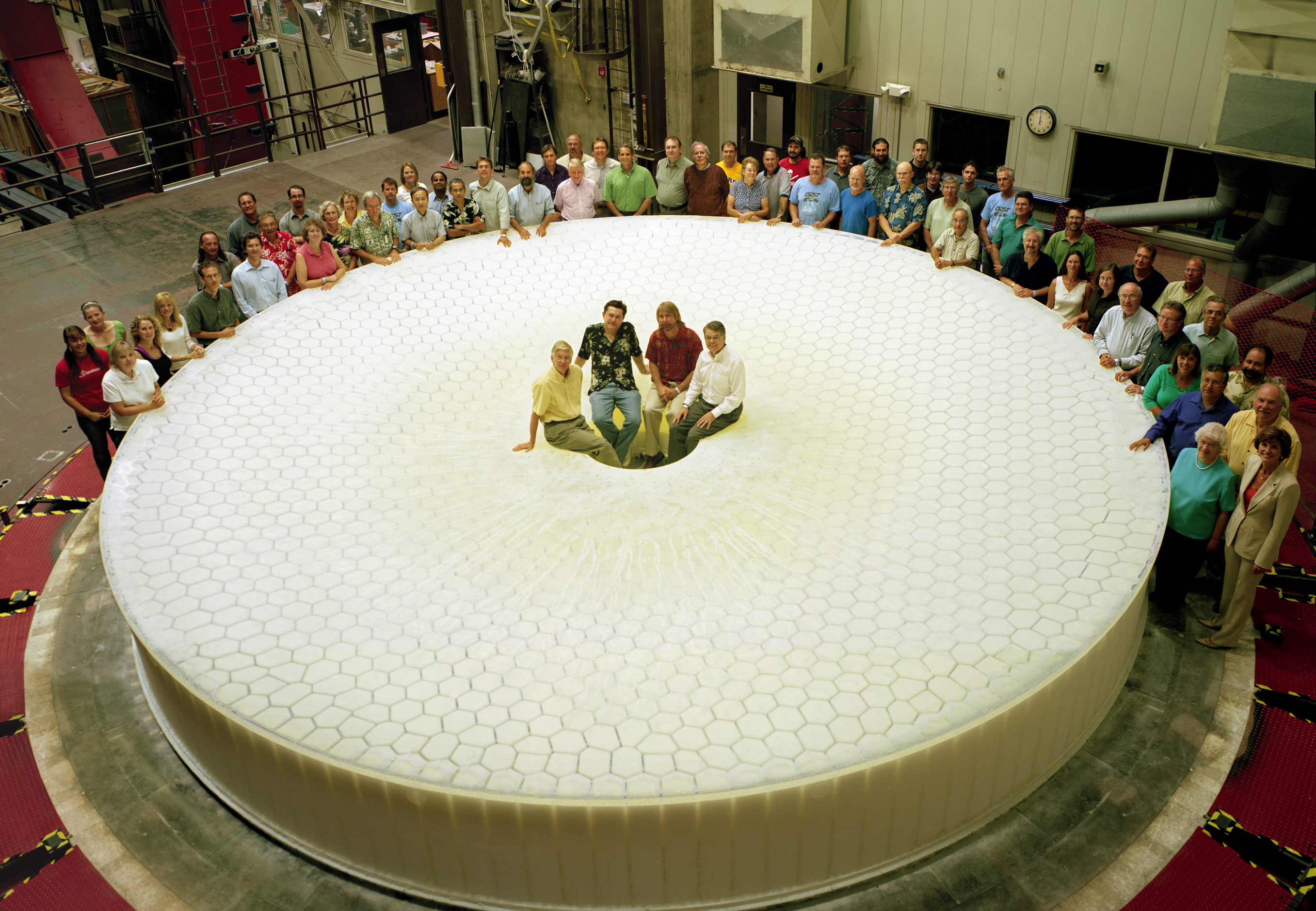 Members of the team building the LSST, a large survey telescope being built in Northern Chile, gather to celebrate the successful casting of the telescope's 27.5-foot-diameter mirror blank in August 2008.